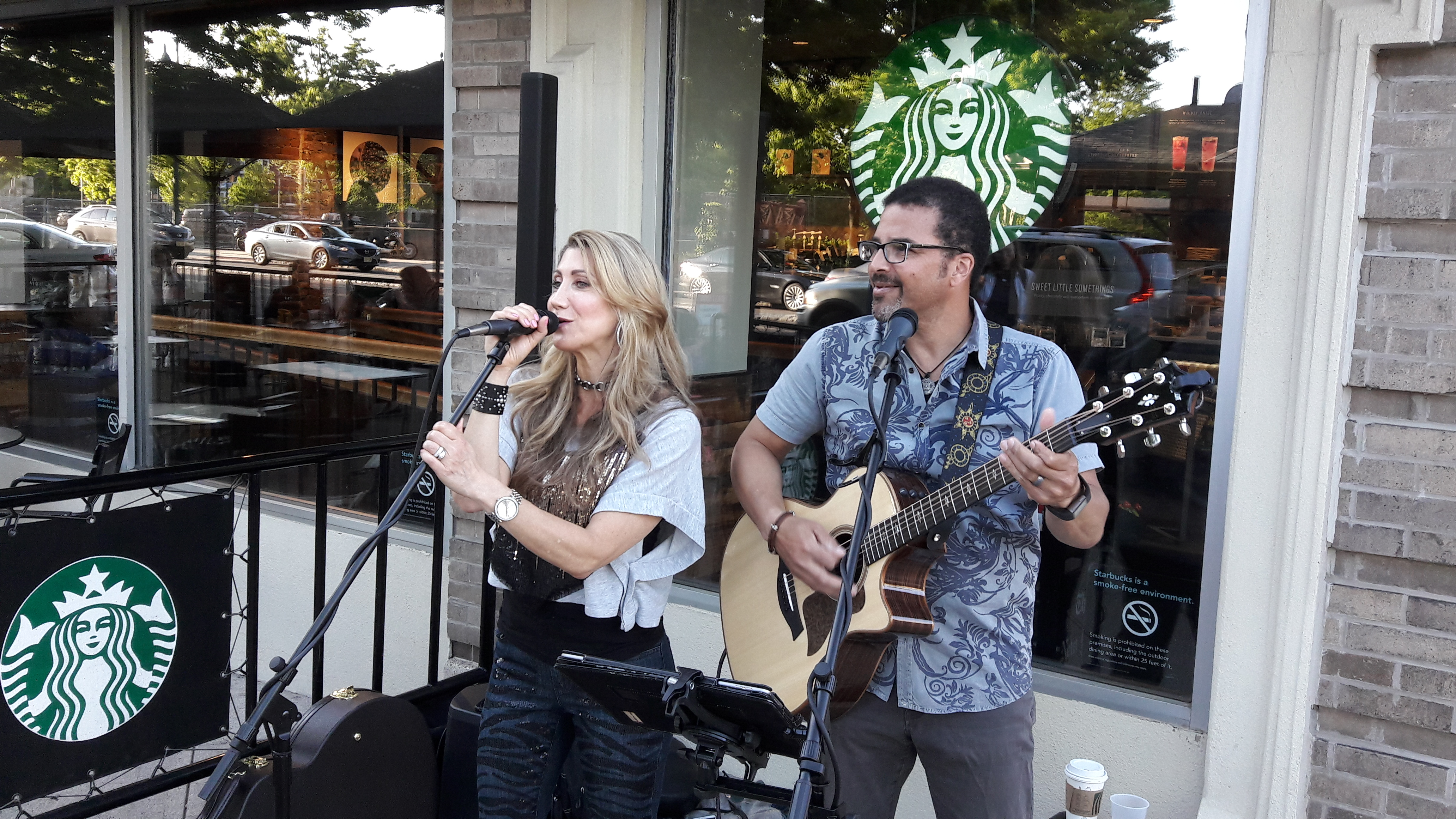 The city of Summit, New Jersey, is encouraging a variety of arts-related projects, including singer-songwriter performances such as this one in front of the Starbucks by NXStage Music.